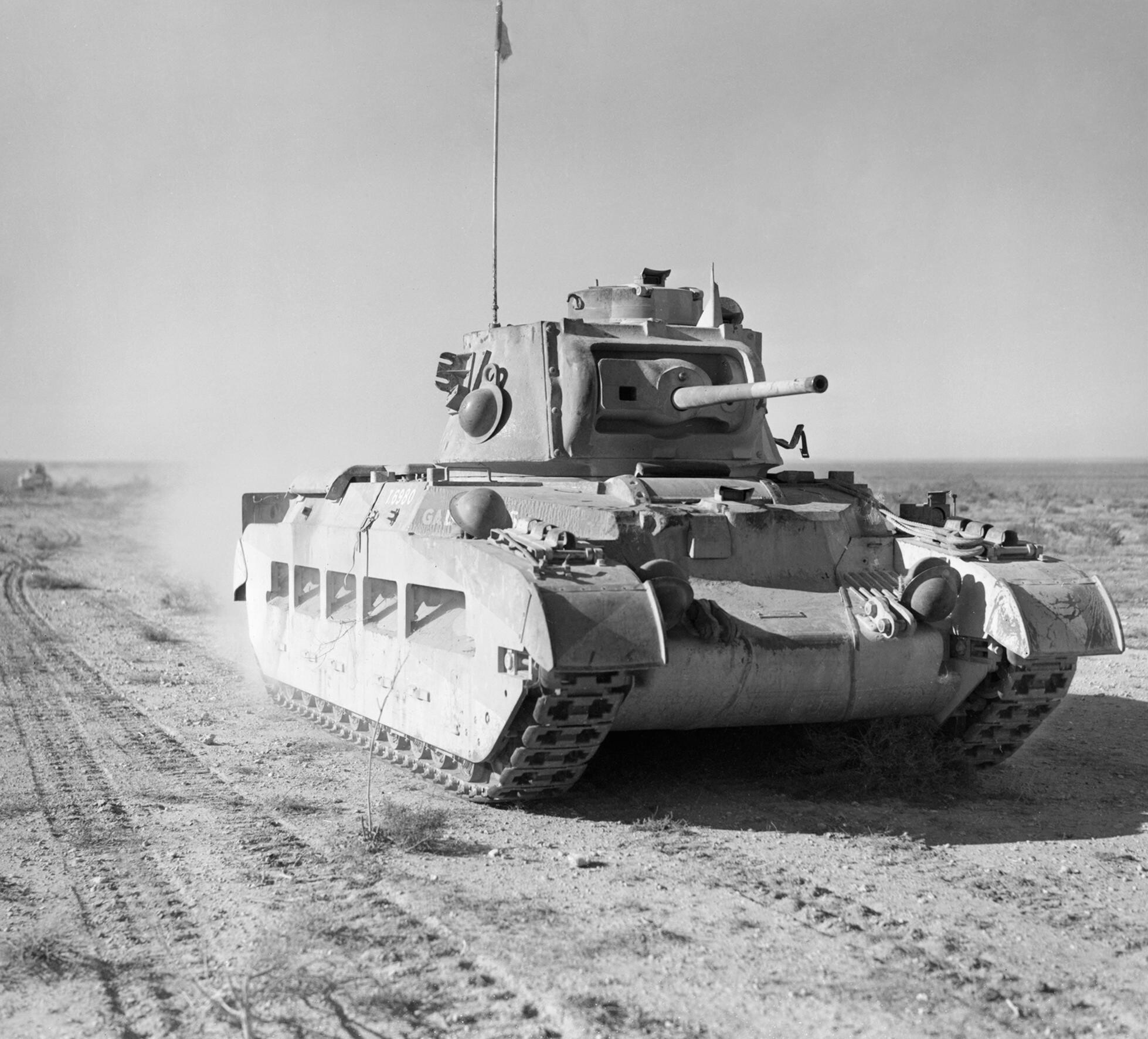 A Matilda II tank of the 7th Royal Tank Regiment in the Western Desert, 19 December 1940.